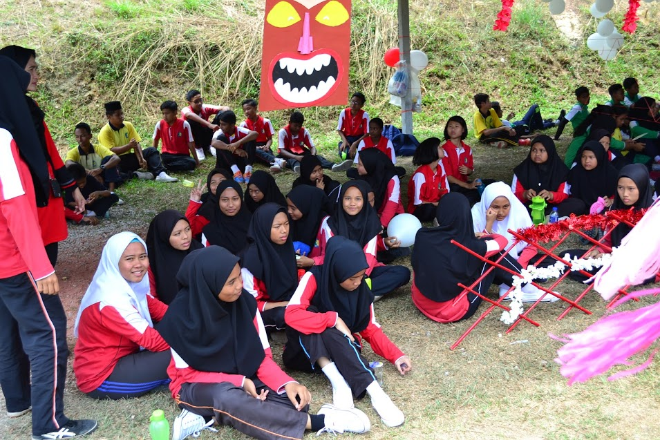 SUKAN 6